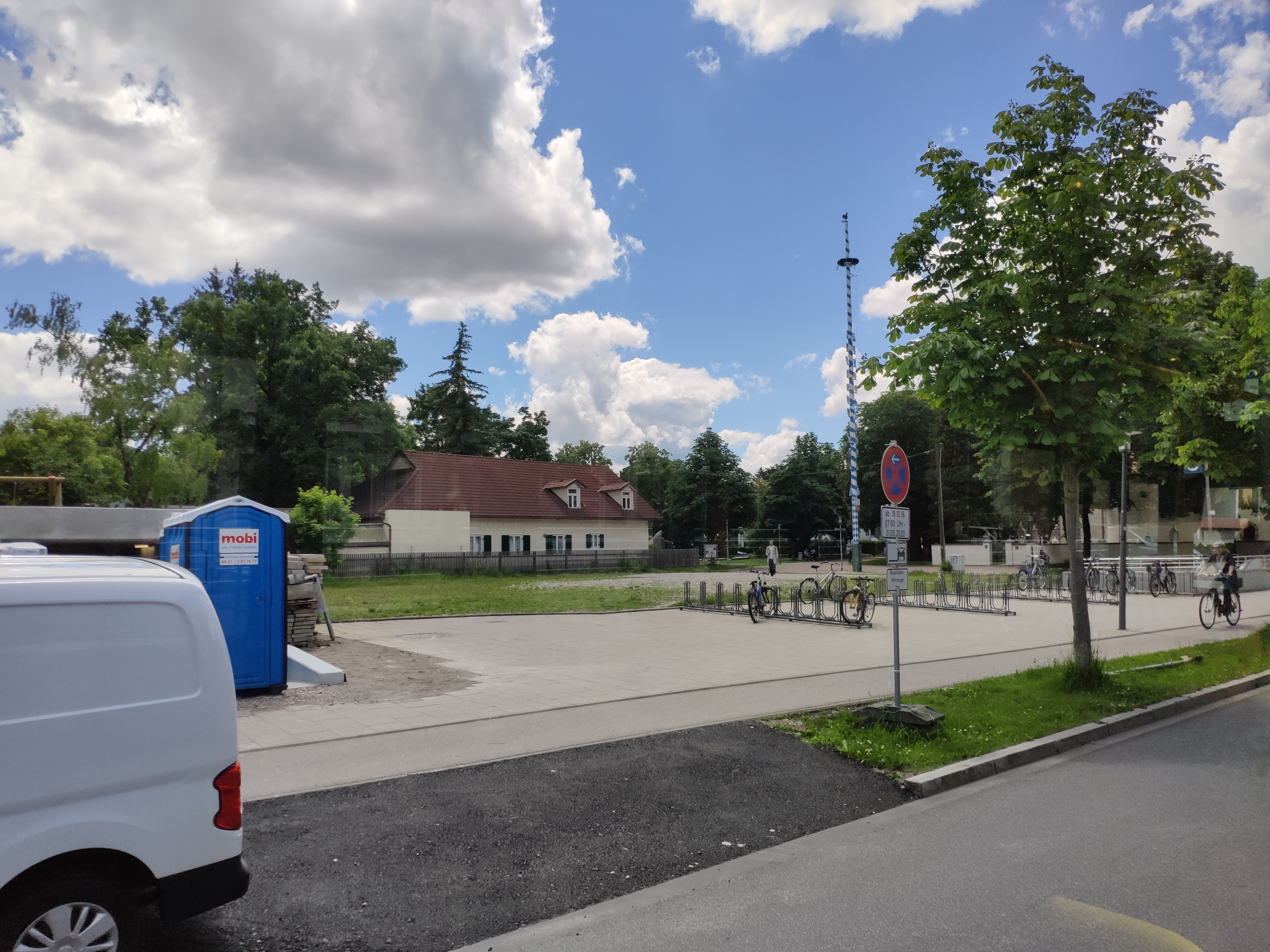 Moosacher St.-Martins-Platz